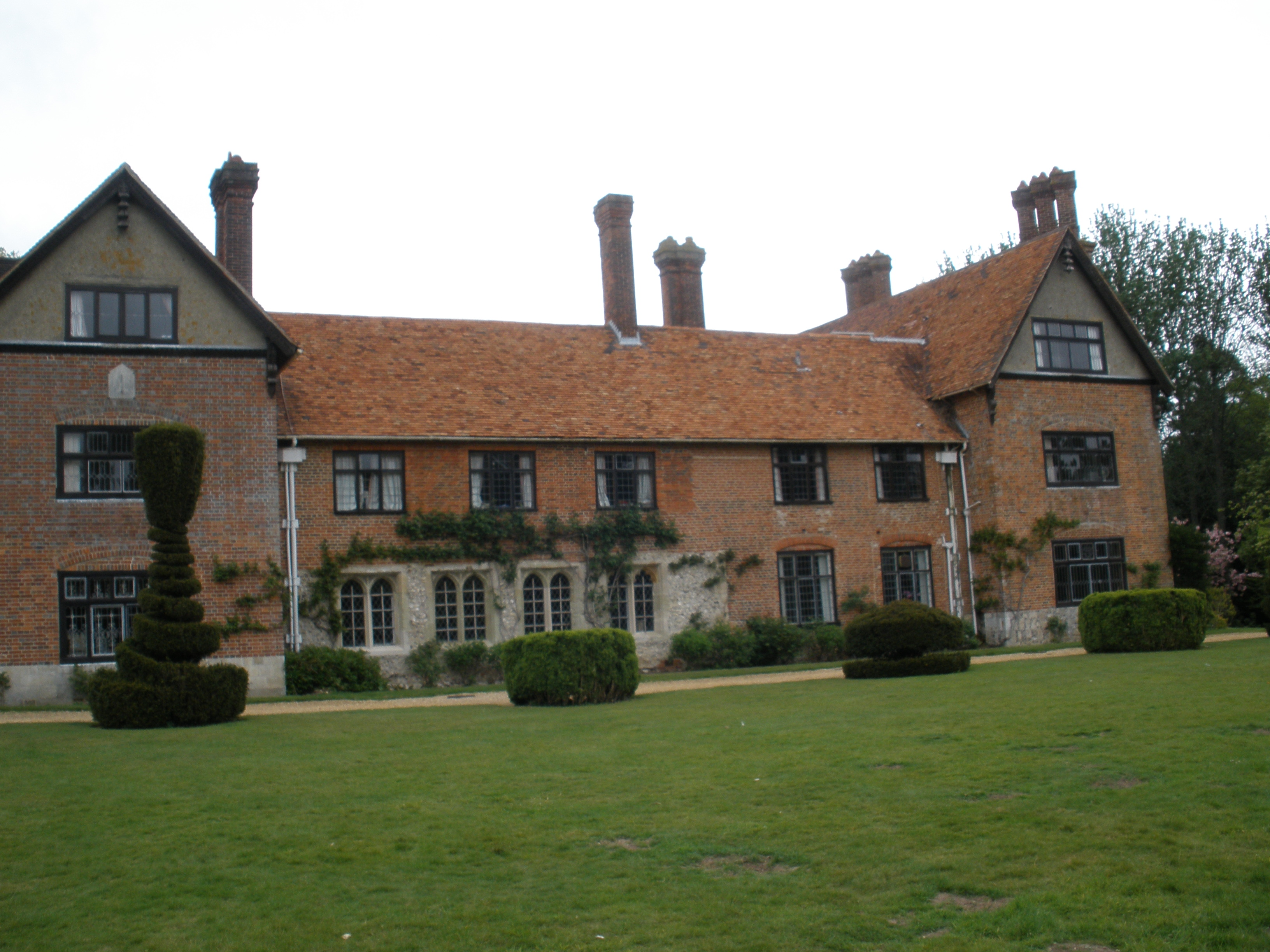 Stanbridge Earls School, May 2010